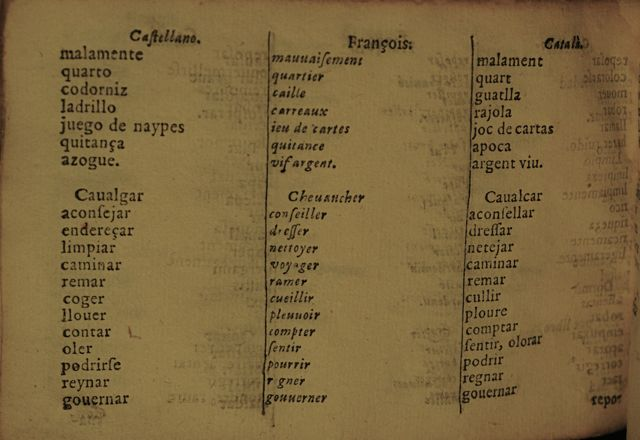 Own picture of the book Dictionario castellano... Dictionaire françois... Dictionari catala. Barcelona 1642. Author: Pere Lacavalleria (1642)